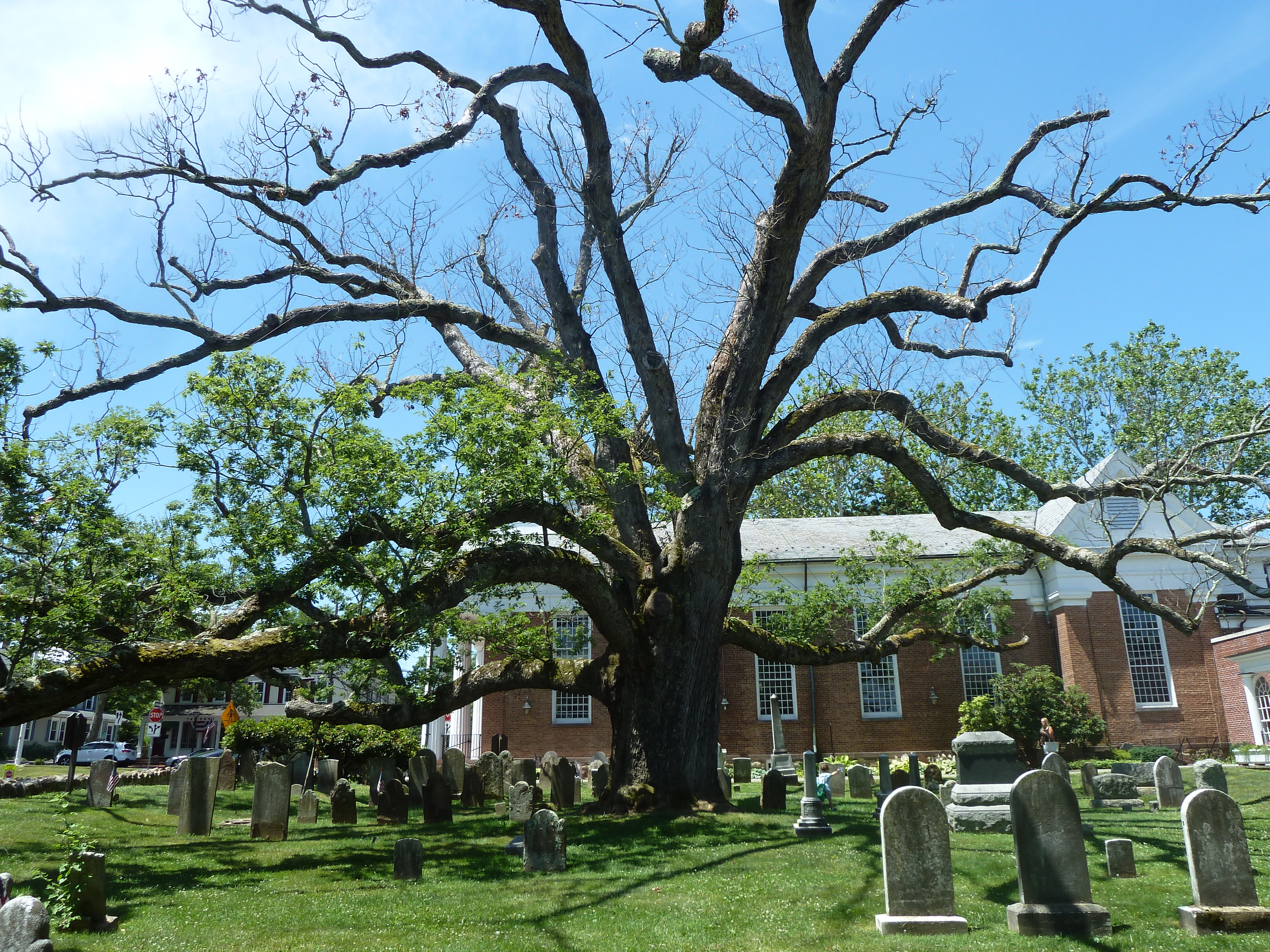 Distressed 600 y/o White Oak, Basking Ridge, NJ